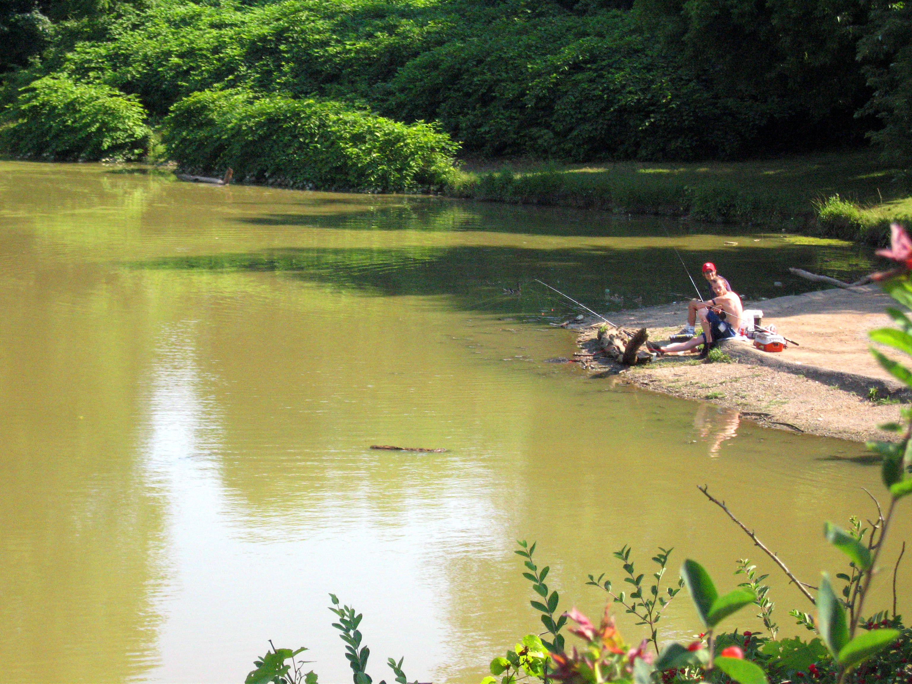 People fishing at Canonsburg Lake. Original title on Flickr: "Fishin'"